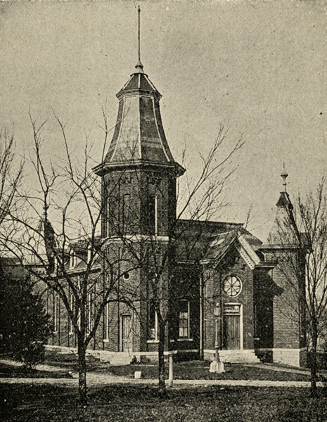 Old Gymnasium